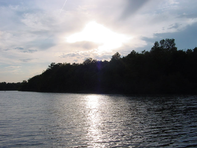 This is an image photographed by me at Moraine View State Recreation Area, in the state of Illinois, USA. Images of McLean County, Illinois